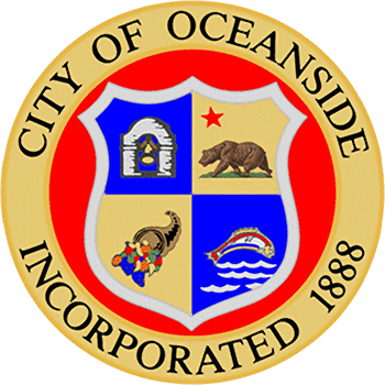 The official city seal of Oceanside, California.